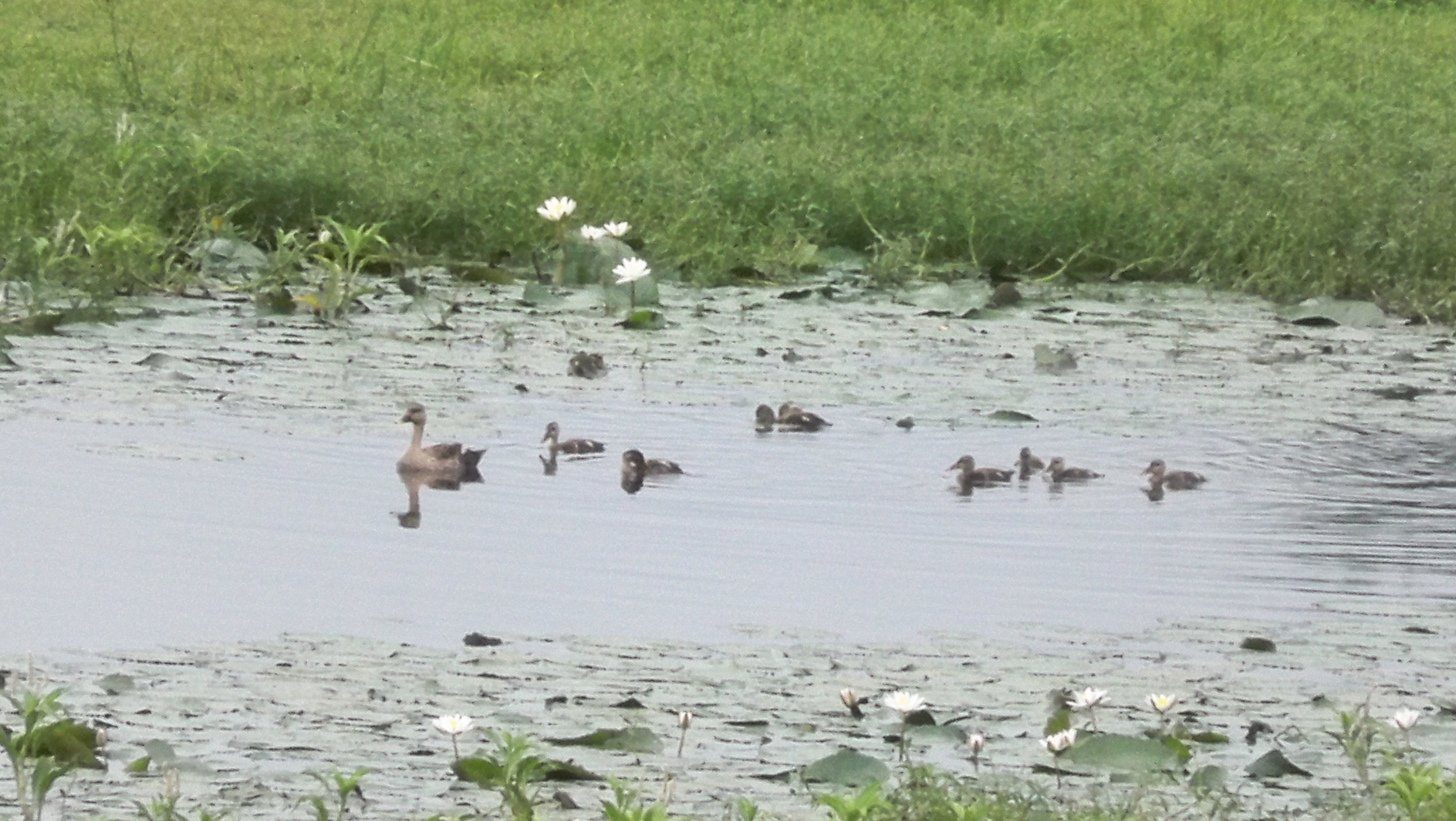 Indian Spot-billed Duck Anas poecilorhyncha